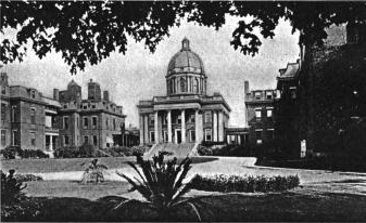 The Book of Boston: Fifty Years' Recollections of the New England Metropolis By Edwin Monroe Bacon Published by Book of Boston Co., 1916